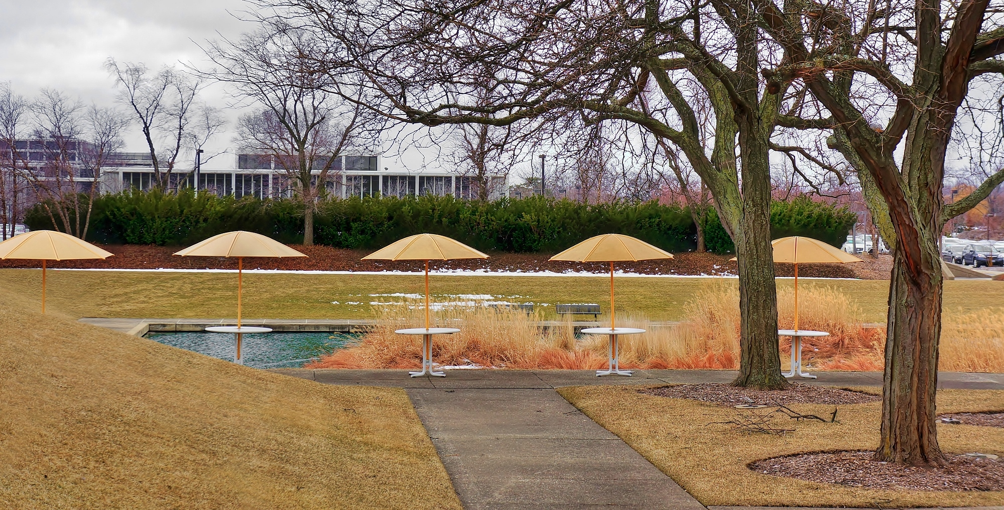 Northfield Township, Cook County, IL, USA: appears to be Allstate headquarters in unincorporated Northfield Township between Glenbrook and Northbrook